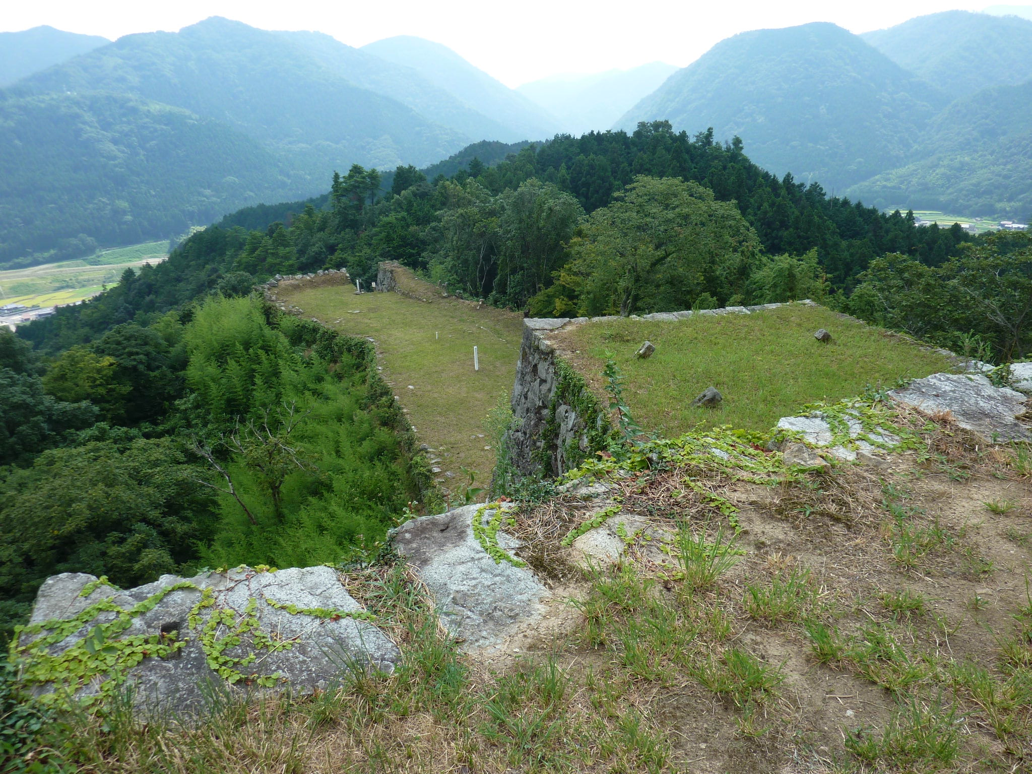 Hitojichi-kuruwa and San-no-maru, Tsuwano castle